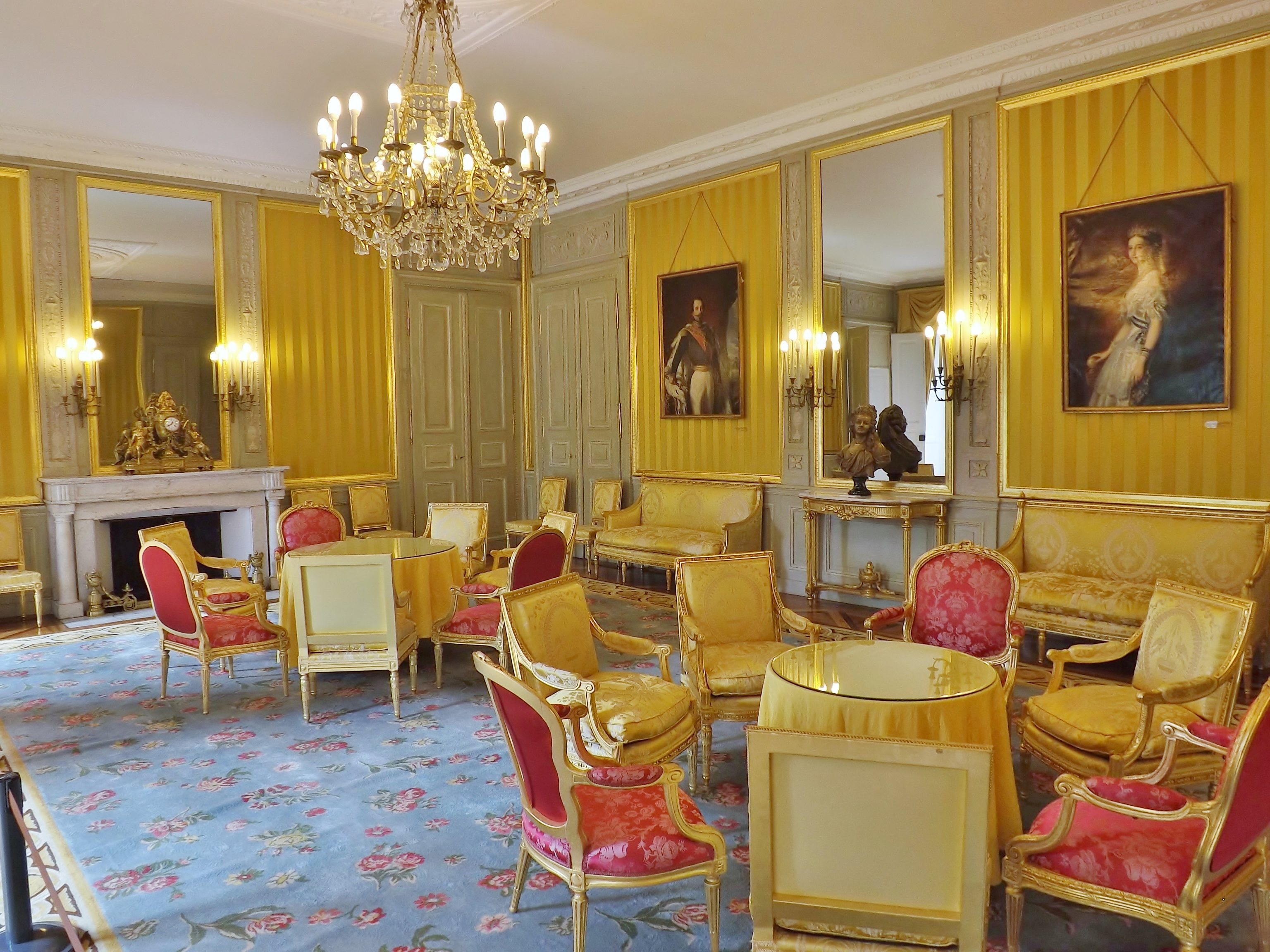 Inside of the chambre jaune chamber (also called salon jaune) in the château des Ducs de Savoie castle of Chambéry in Savoie, France. In this room was the treaty of union between Savoie and France signed in 1860. At the wall can be seen portraits of Louis Napoléon Bonaparte, emperor of France at that time, and his spouse, Impératrice Eugénie.